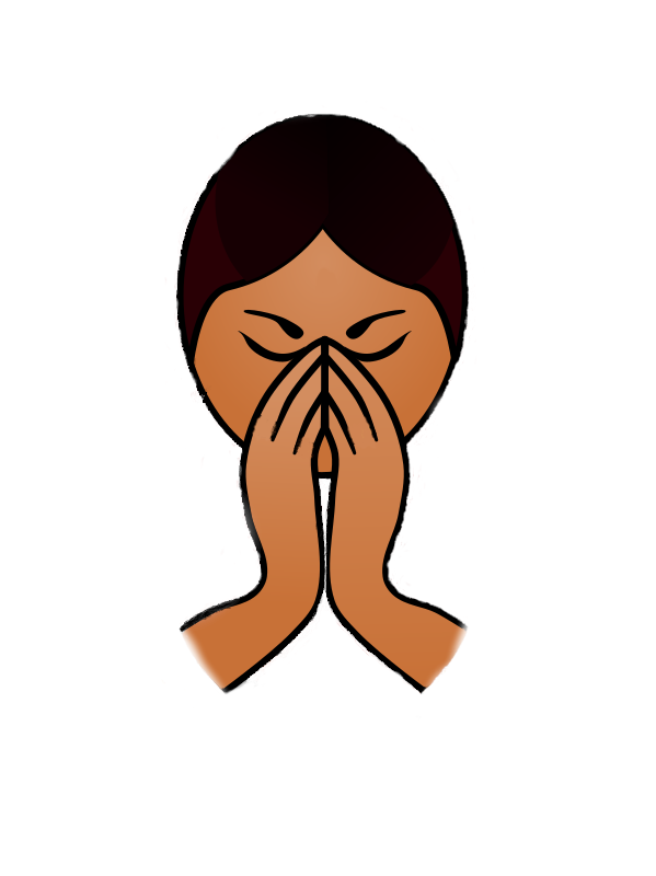 Mainstream greeting after coronavirus